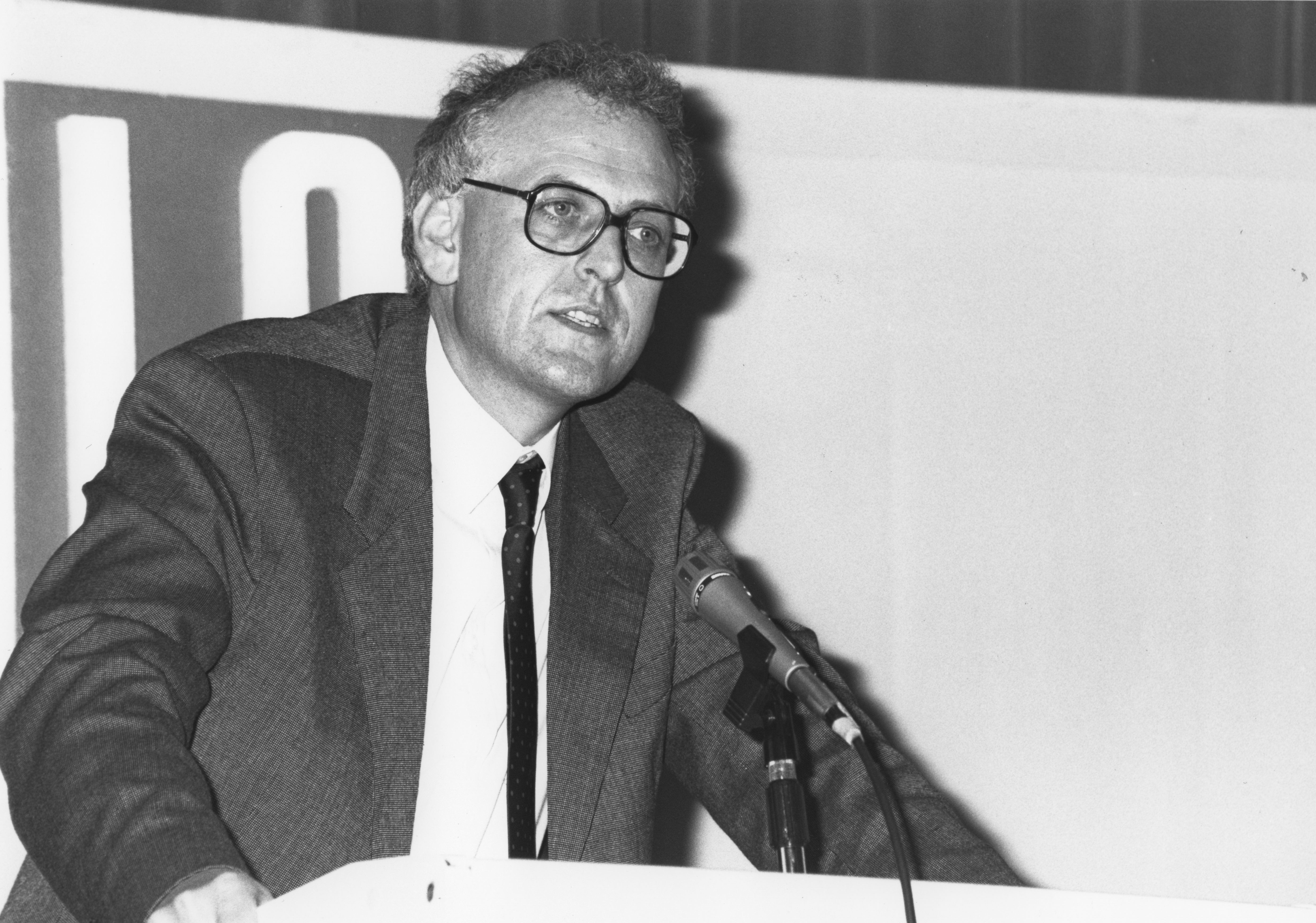 Giving a public lecture at LSE : The British Constitution: A Health Check, LSE Society Annual Special Lecture IMAGELIBRARY/96 Persistent URL